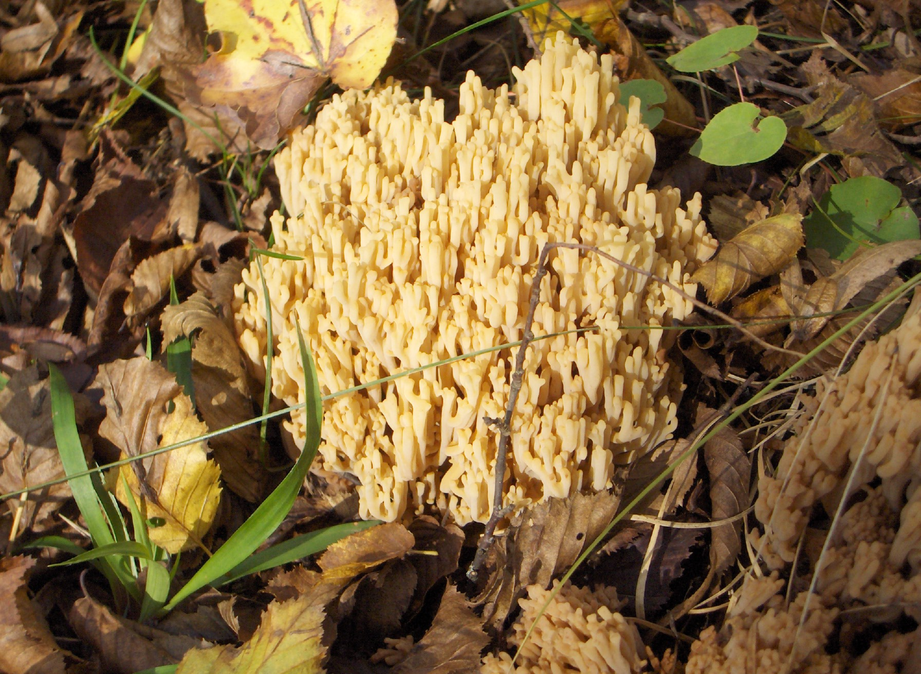 Ramaria pallida from Lipik, Croatia